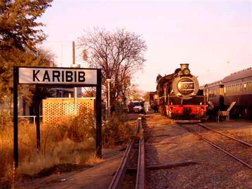 Der Bahnhof in Karibib in Namibia. The station in Karibib, Namibia.